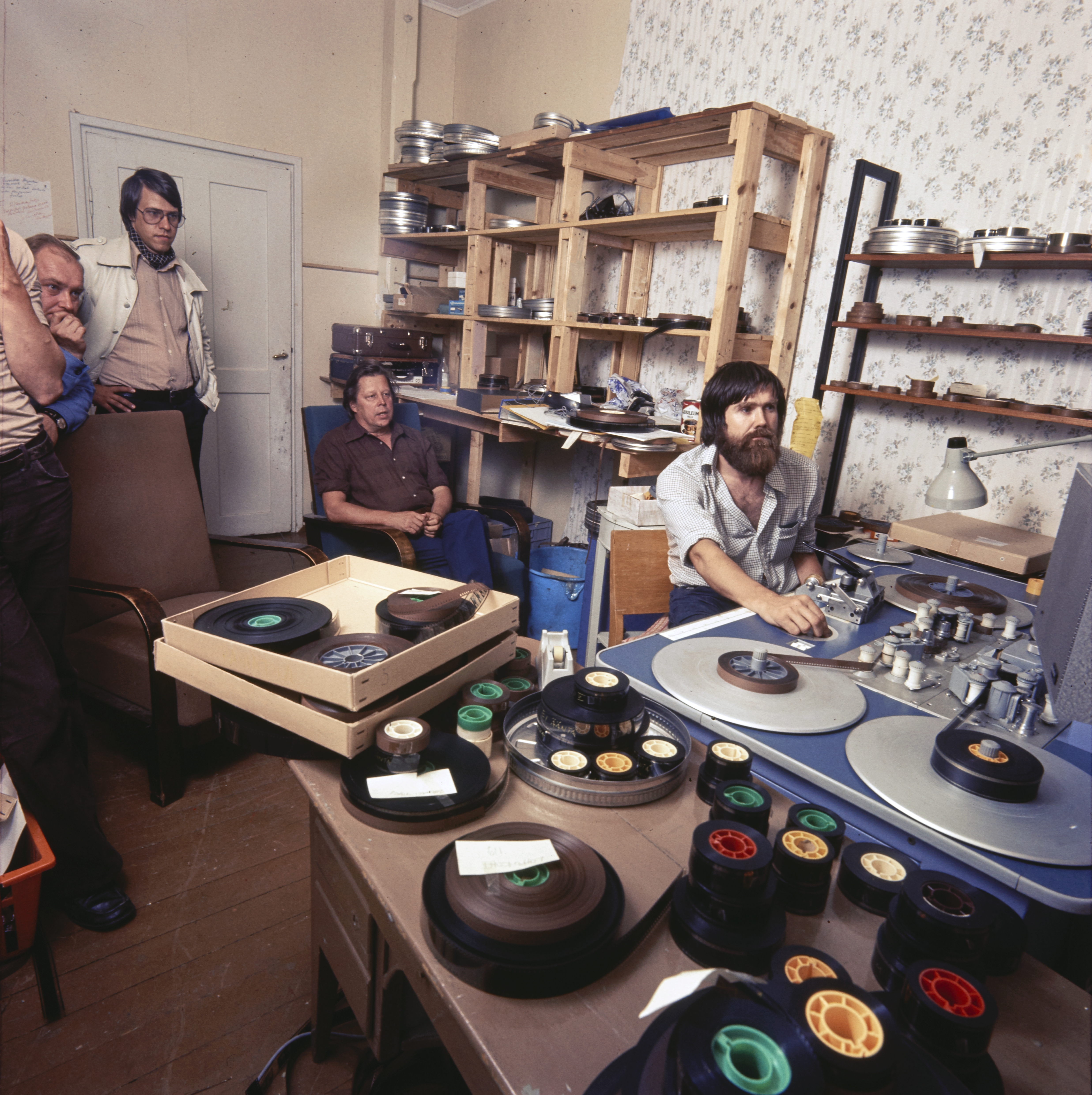 Photograph of the Finnish film editor Hannu Peltomaa (1941–). In the background film director Rauni Mollberg (sitting) and screenwriter-producer Veikko Korkala (standing in front of door). Based on the date (July 1977) and the people present, this is apparently a dailies viewing or editing session for Mollberg's film Aika hyvä ihmiseksi which premiered in Oct. 1977.